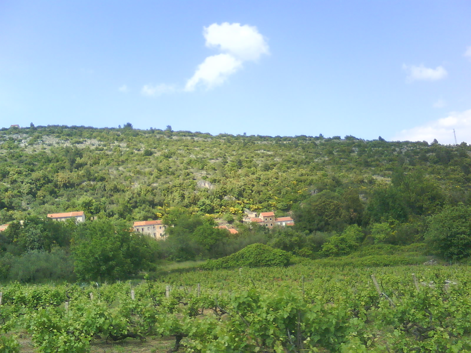 Gornja Vrućica,village in Trpanj municipality